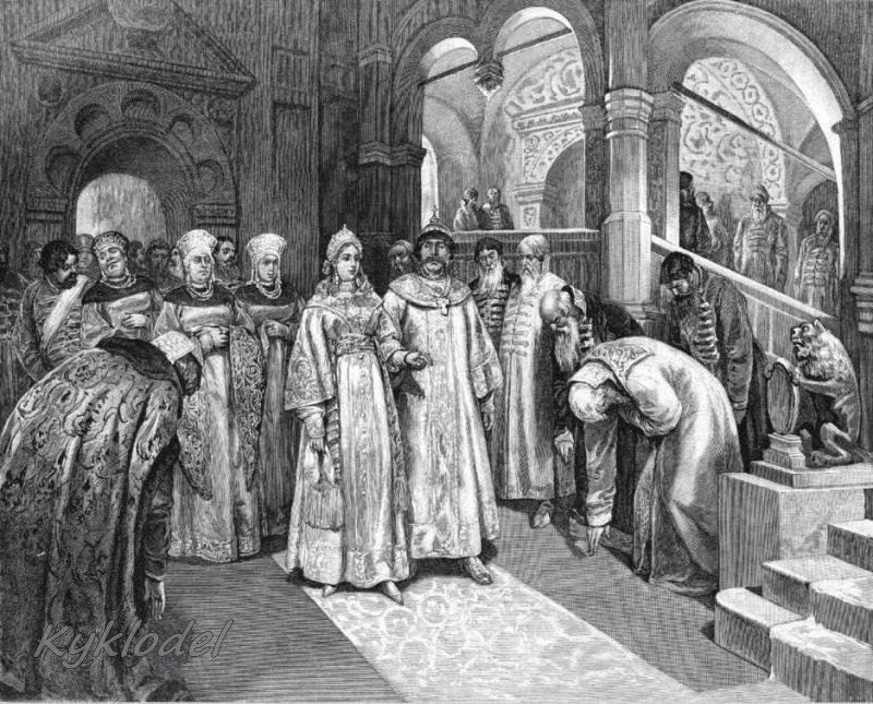 1526. Grand Prince of Moscow, Vasily III, brings his bride, Elena Glinskaya, into the palace.